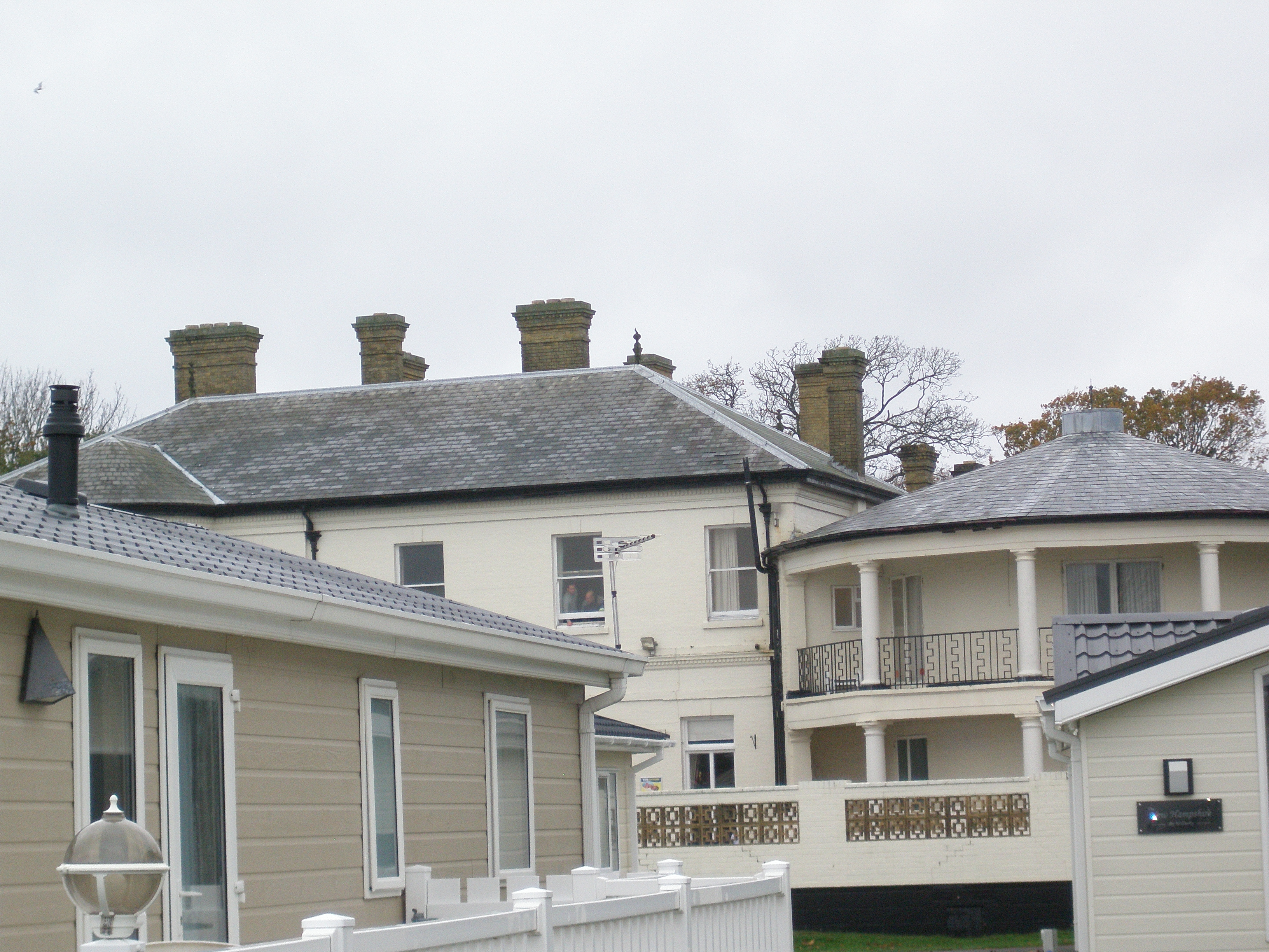 Sandhills was the holiday home of Sir George Rose, Member of Parliament and close friend and advisor to the prime minister William Pitt. It was built on the beach at Mudeford and Sir George's other great friend, King George III, stayed there on a number of occasions, helping to promote Christchurch as a tourist destination. Sandhills was also home to George Rose's two sons: Sir George Henry Rose, politician and diplomat, and William Rose, poet. Field Marshal Hugh Rose, 1st Baron Strathnairn, GCB, GCSI, son of George Henry Rose also spent time living at the family home. Sandhills is now a holiday park with static caravans in the grounds and the house has been converted into flats.